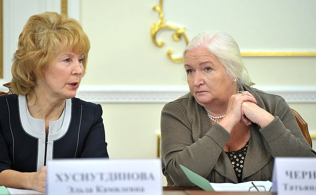 Professor, Department of St. Petersburg State University, Tatyana Chernigovskaya at a meeting of the Council for Science and Education